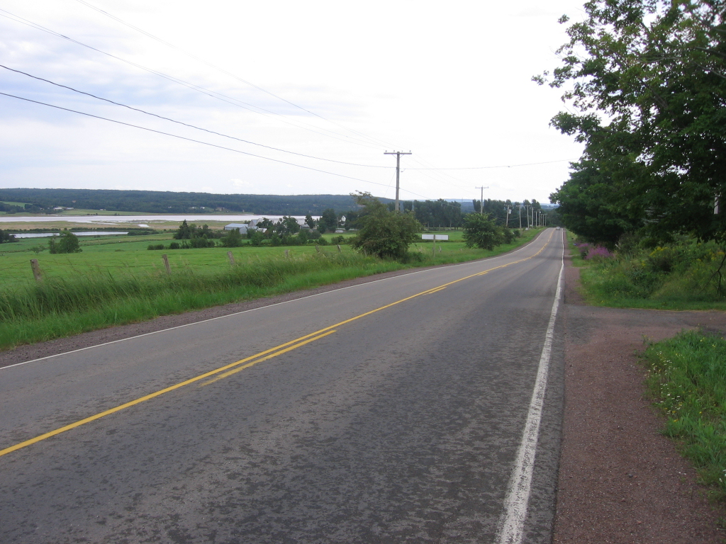 Self-made photo, resized.